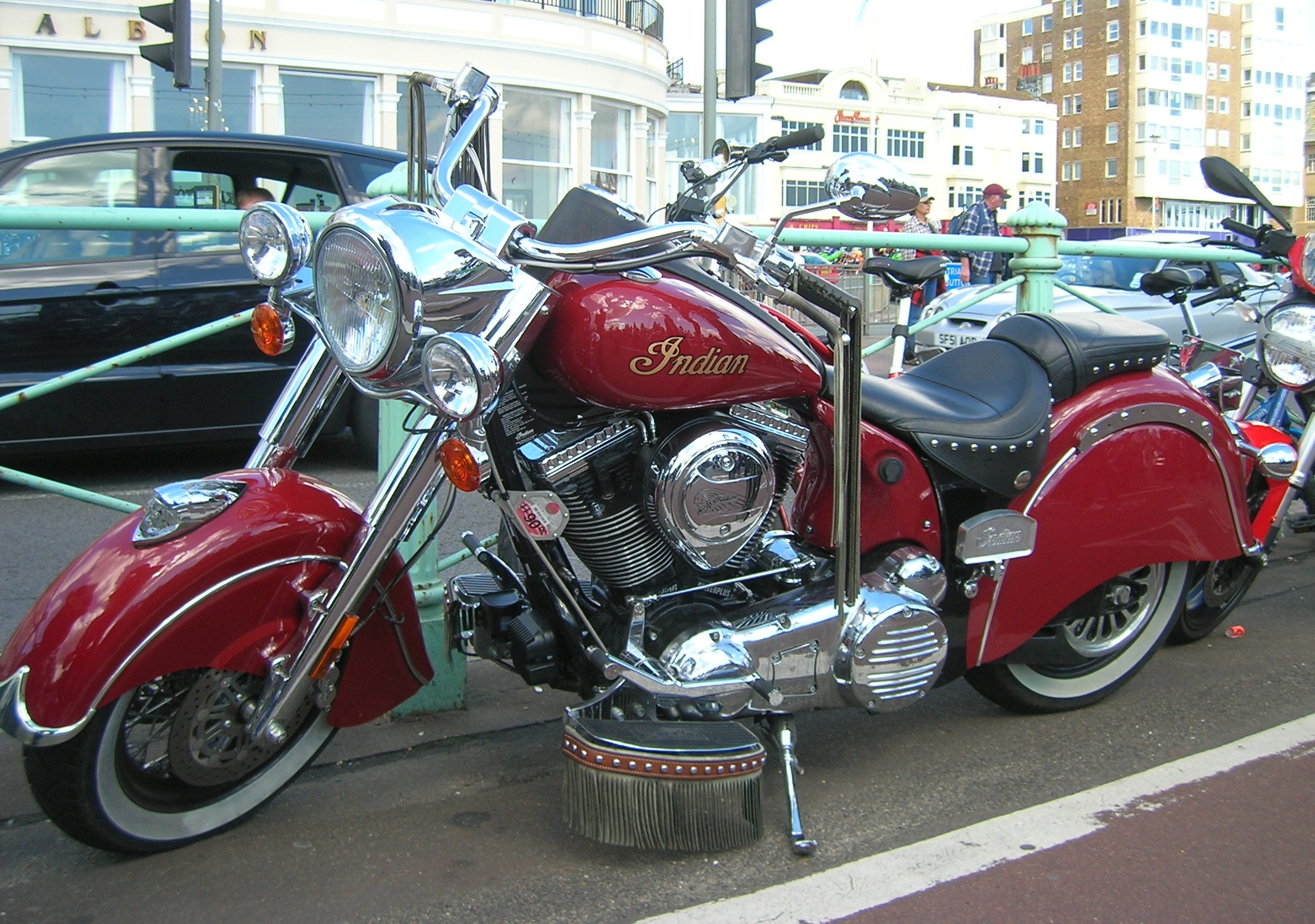 Brighton, UK, 2010